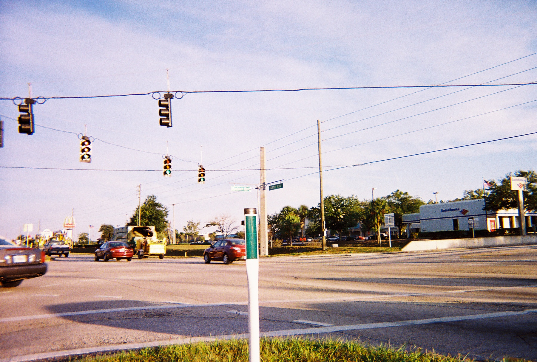 An attempt to show the suburban sprawl along Florida State Road 50 at the intersection of Mariner Boulevard, including the northern terminus of Hernando County Road 587 on the border between unincorporated Brooksville and Spring Hill, Florida. Taken from the northwest corner of that intersection on November 5, 2009. Hernando CR 587 is on the opposite side of this intersection.